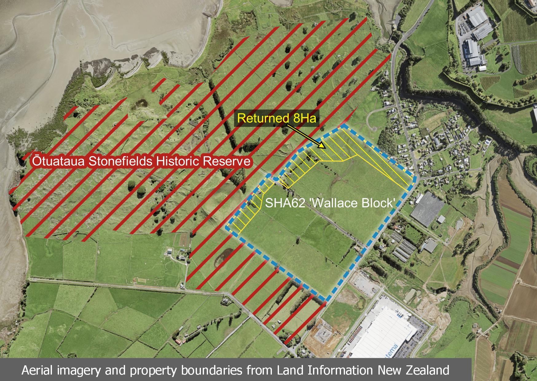 Aerial view of Ihumātao Peninsula, including boundaries of the Ōtuataua Stonefields Historic Reserve, the Special Housing Area 62 ("Wallace Block"), and the approximate boundaries of the 8Ha to be returned to mana whenua as part of the Fletchers Housing development. 2017 Aerial imagery and property title boundaries from Land Information New Zealand, CC-BY